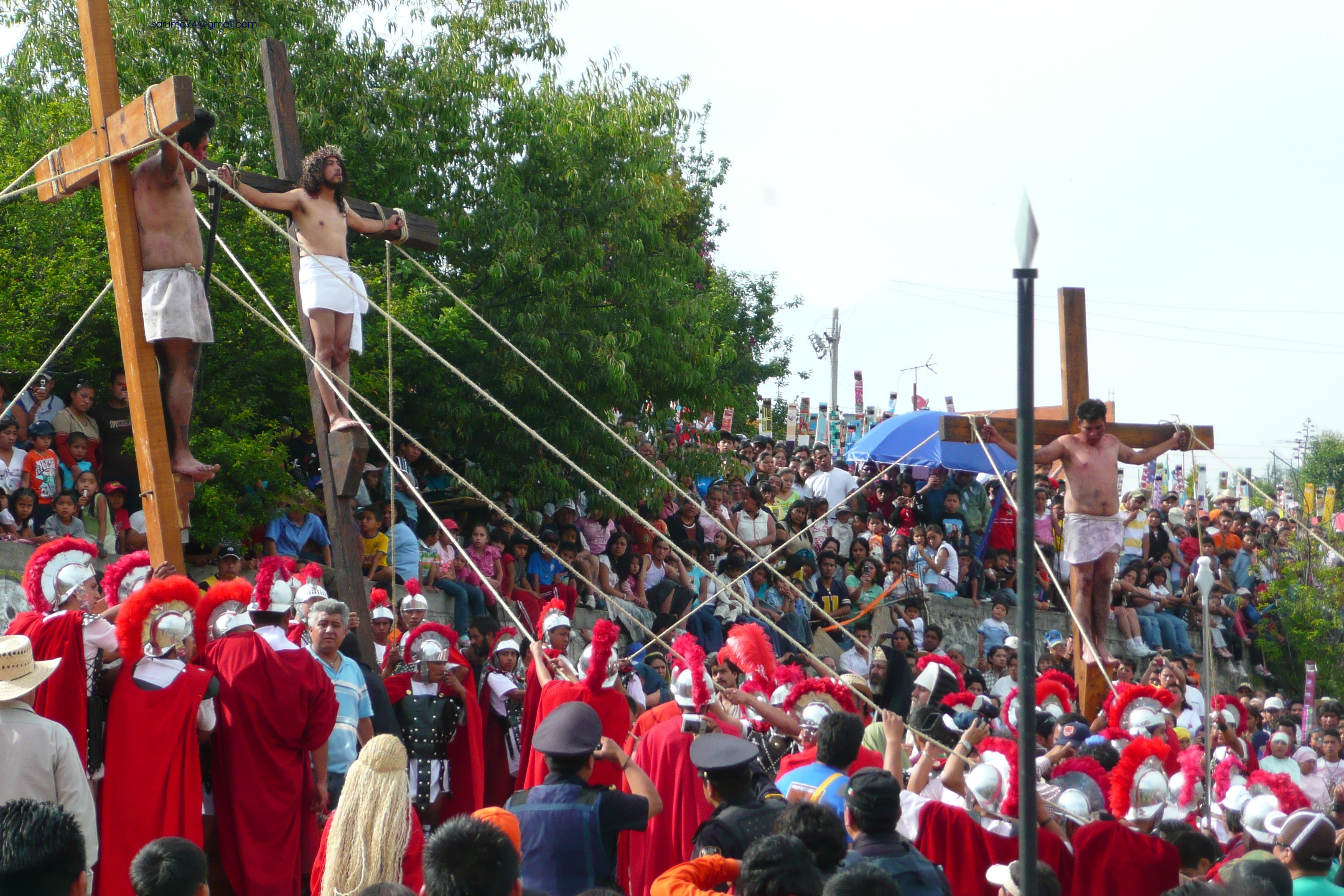 Representation of crucifixion on the hill of Zacamulpa in friday of Holy Week.